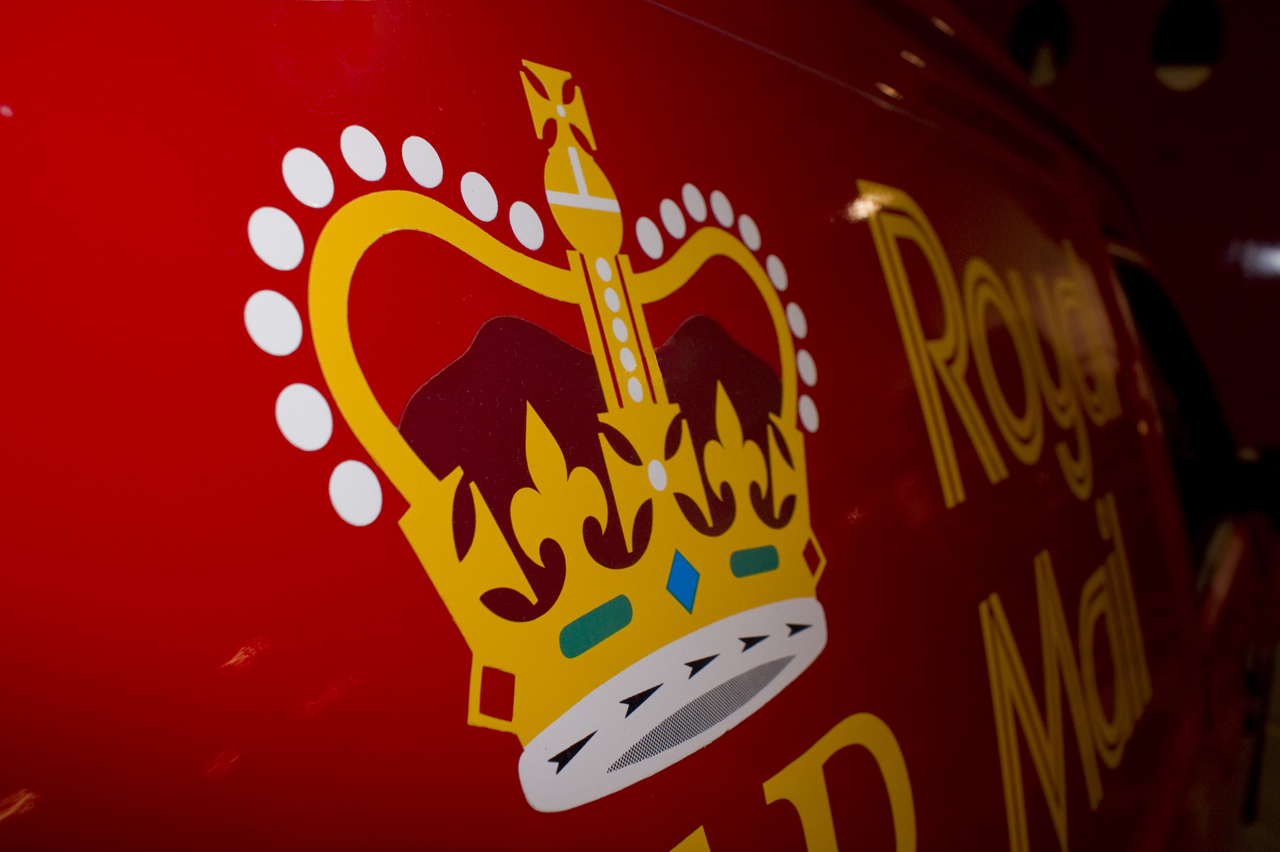 Royal Mail Logo. Royal cipher used as part of the Royal Mail identity on the side of a delivery van. Collection.